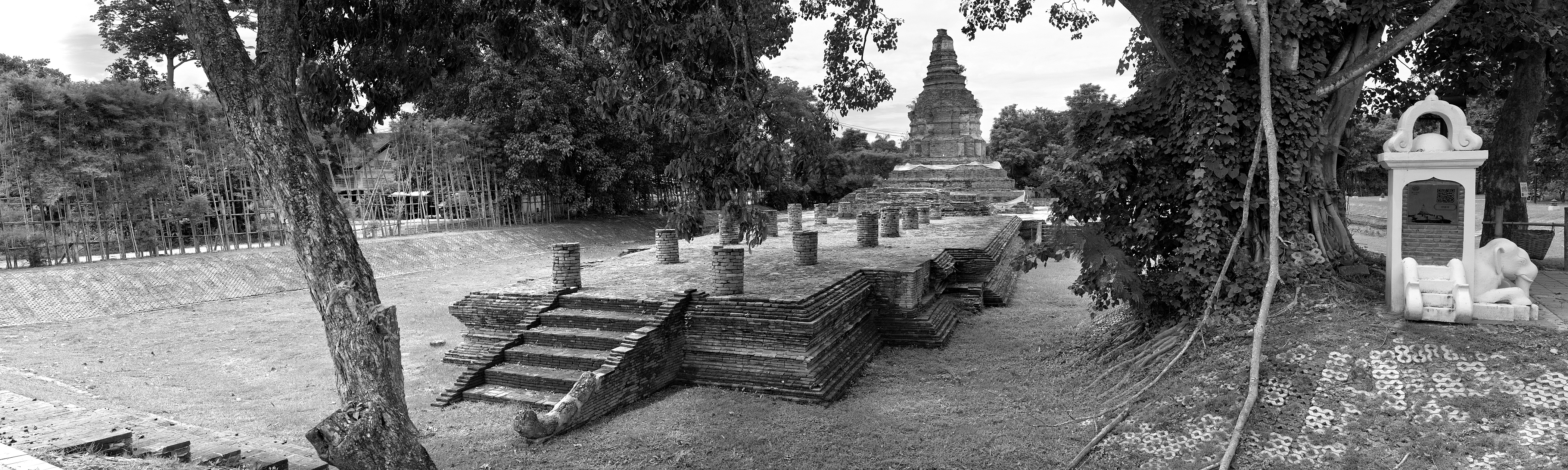 Panorama of Wat E Kang, a ruined temple in the Wiang Kum Kam archaeological complex near Chiang Mai, northern Thailand.